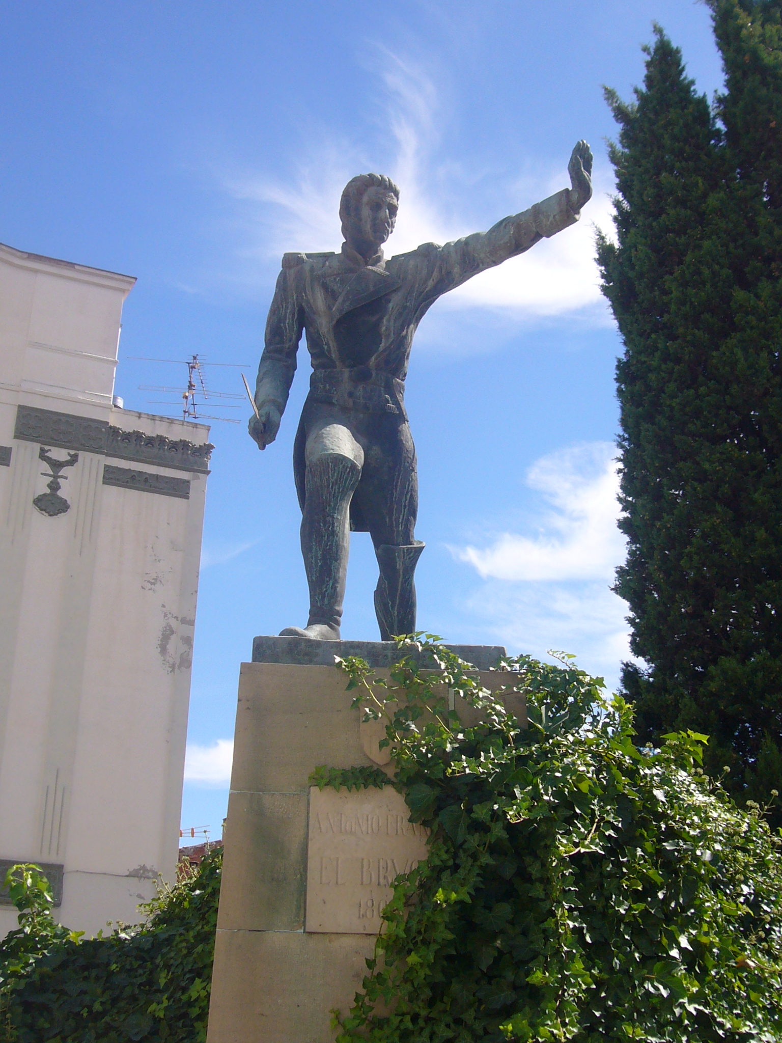 Antoni Franch memorial, in Igualada. He led the Igualada soldiers at the Bruch Batlle in 1808